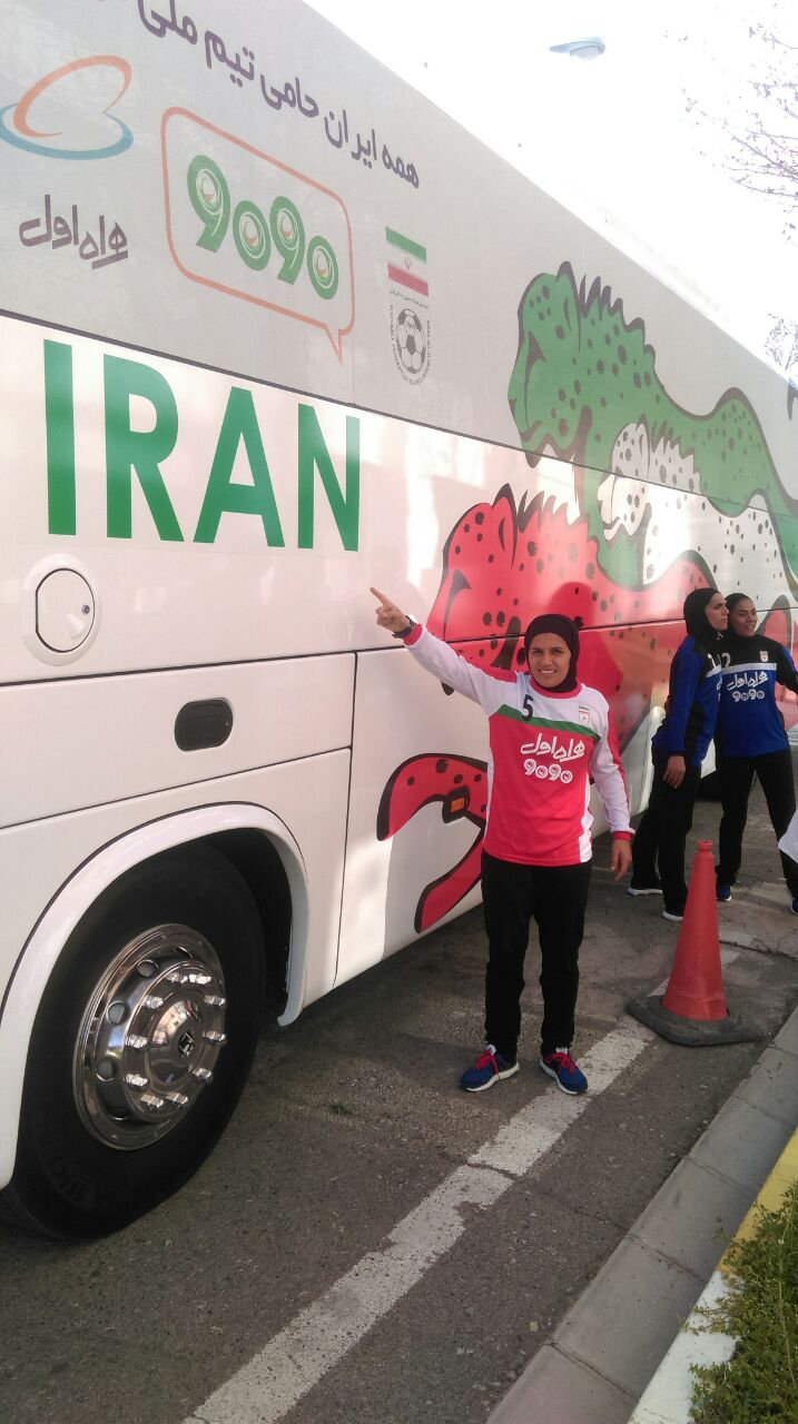 وحیده ایثاری